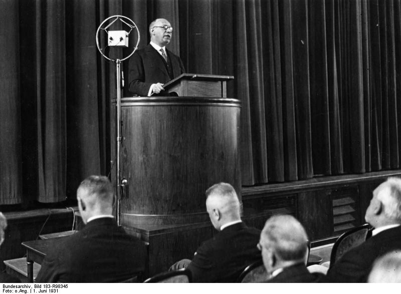 The propaganda text - afterwards added to the photo - contains wrong fact assertions from ADN!